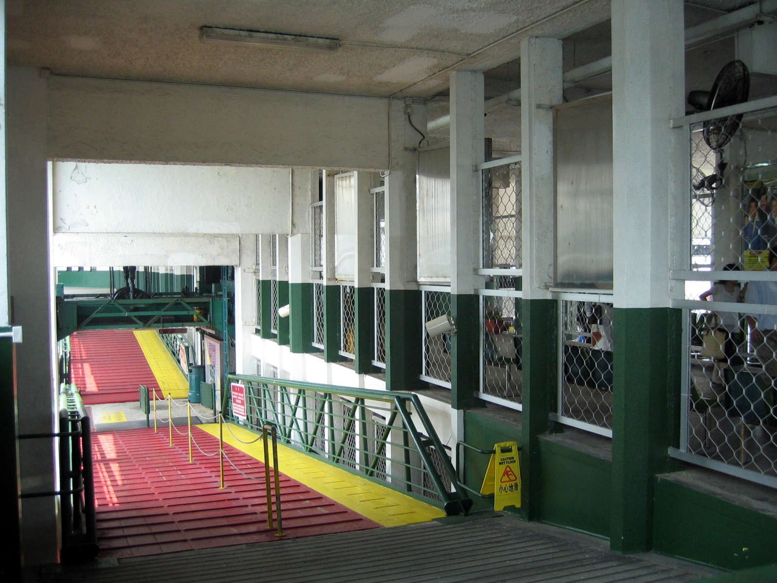 Edinburgh Place Ferry Pier Interior Access 愛丁堡廣場碼頭